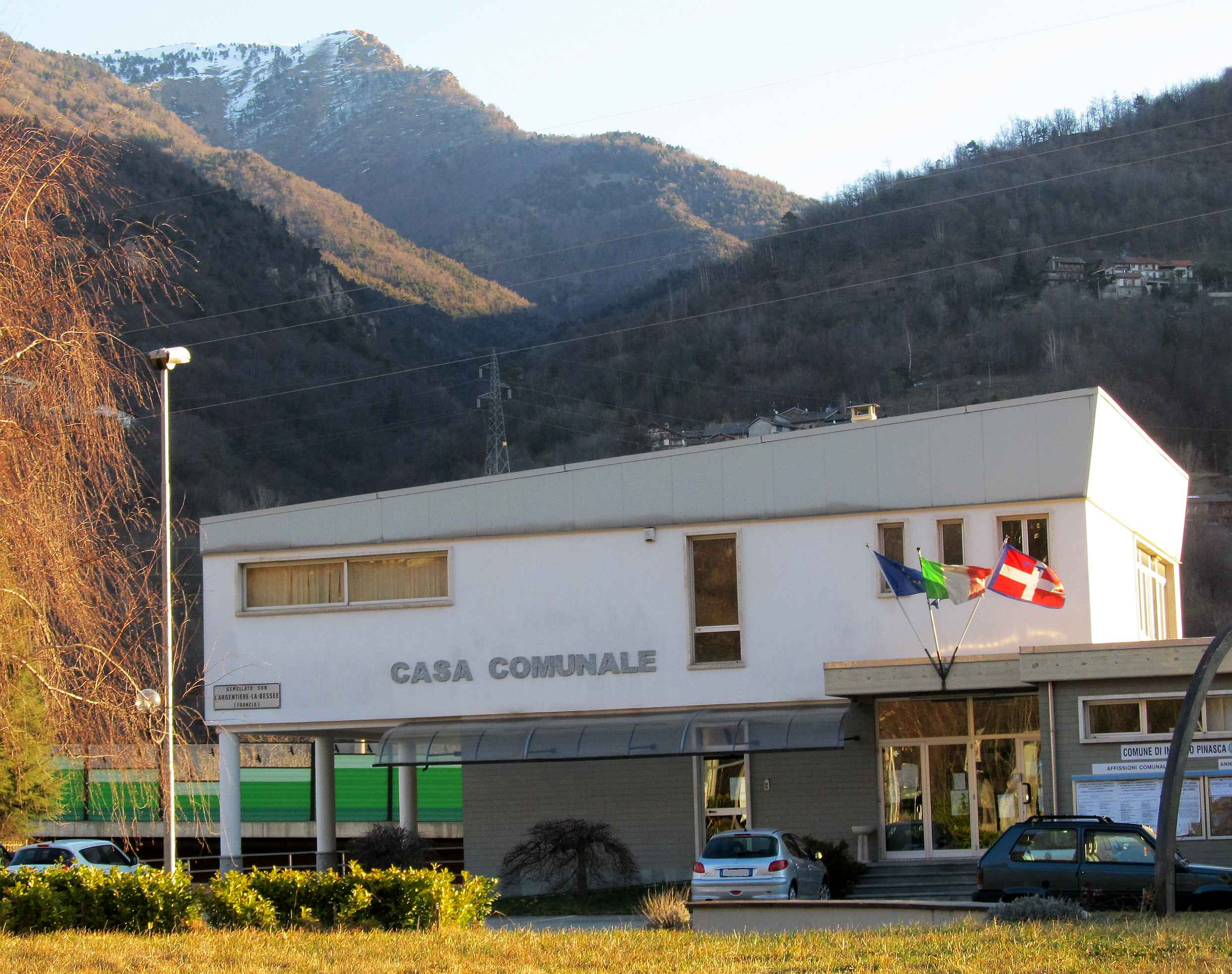 Inverso Pinasca (TO, Italy): town hall